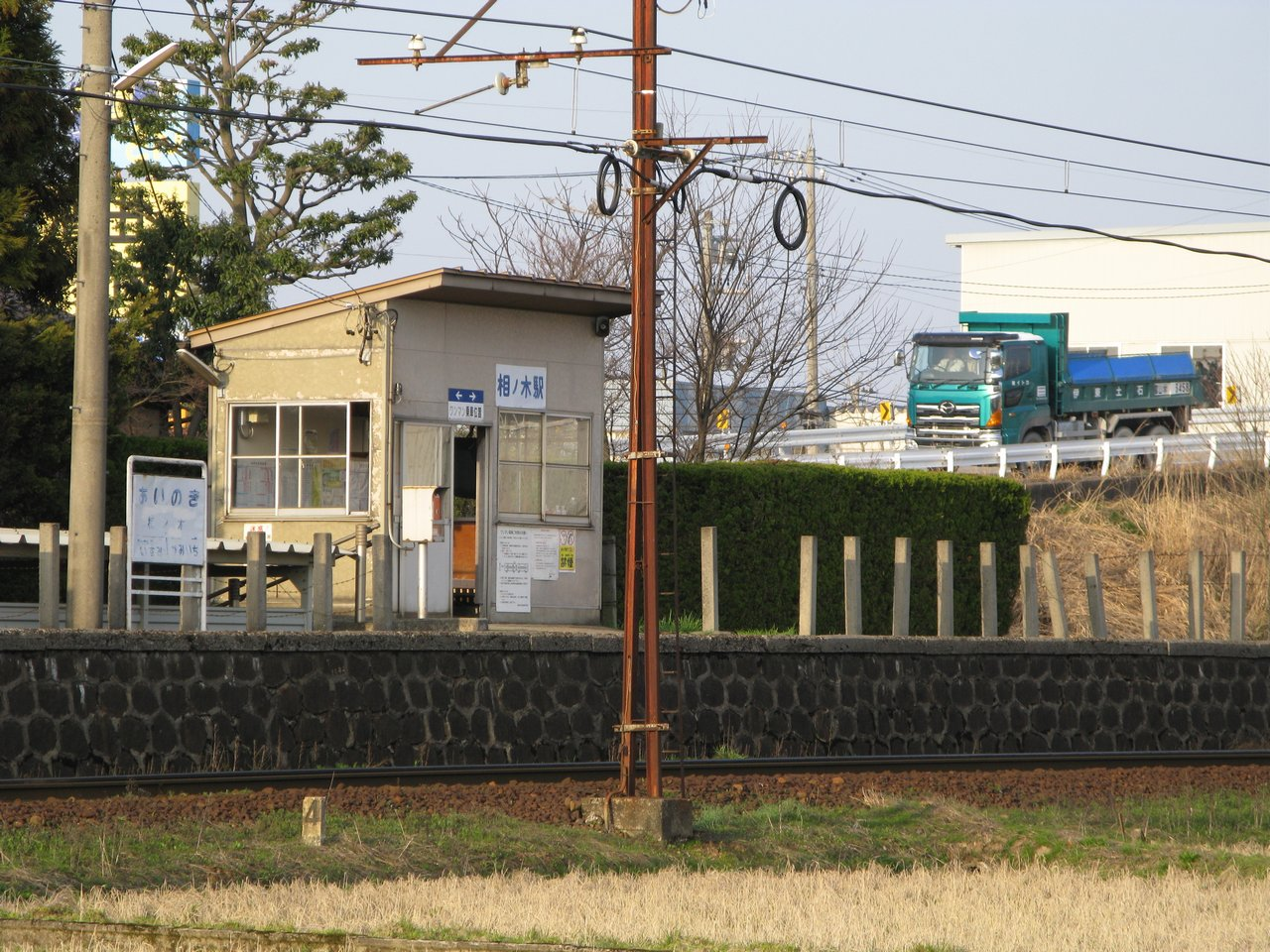 Toyama Chihou Railway Ainoki Station